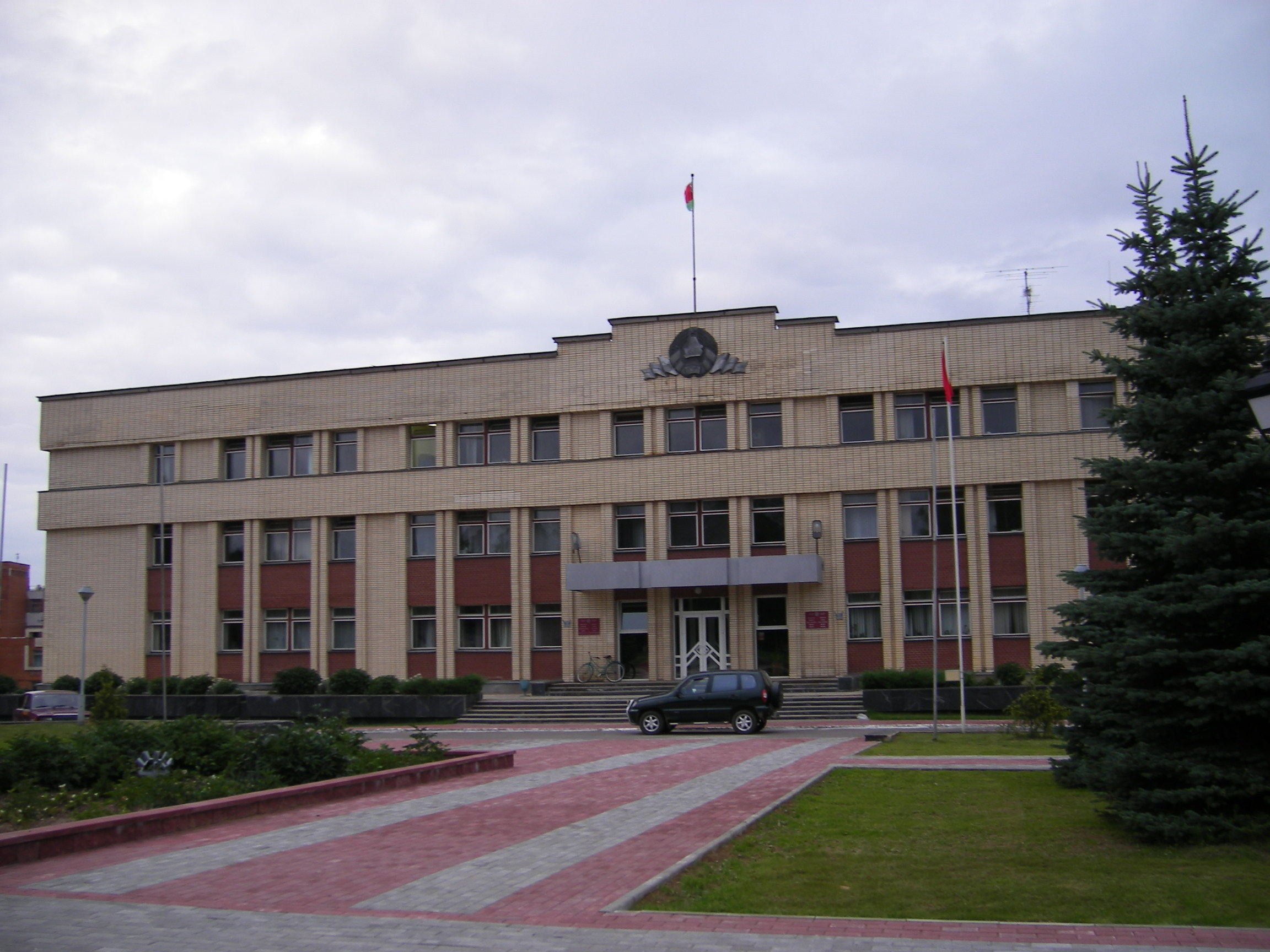 Dzyarzhynsk, Raion Administration Building